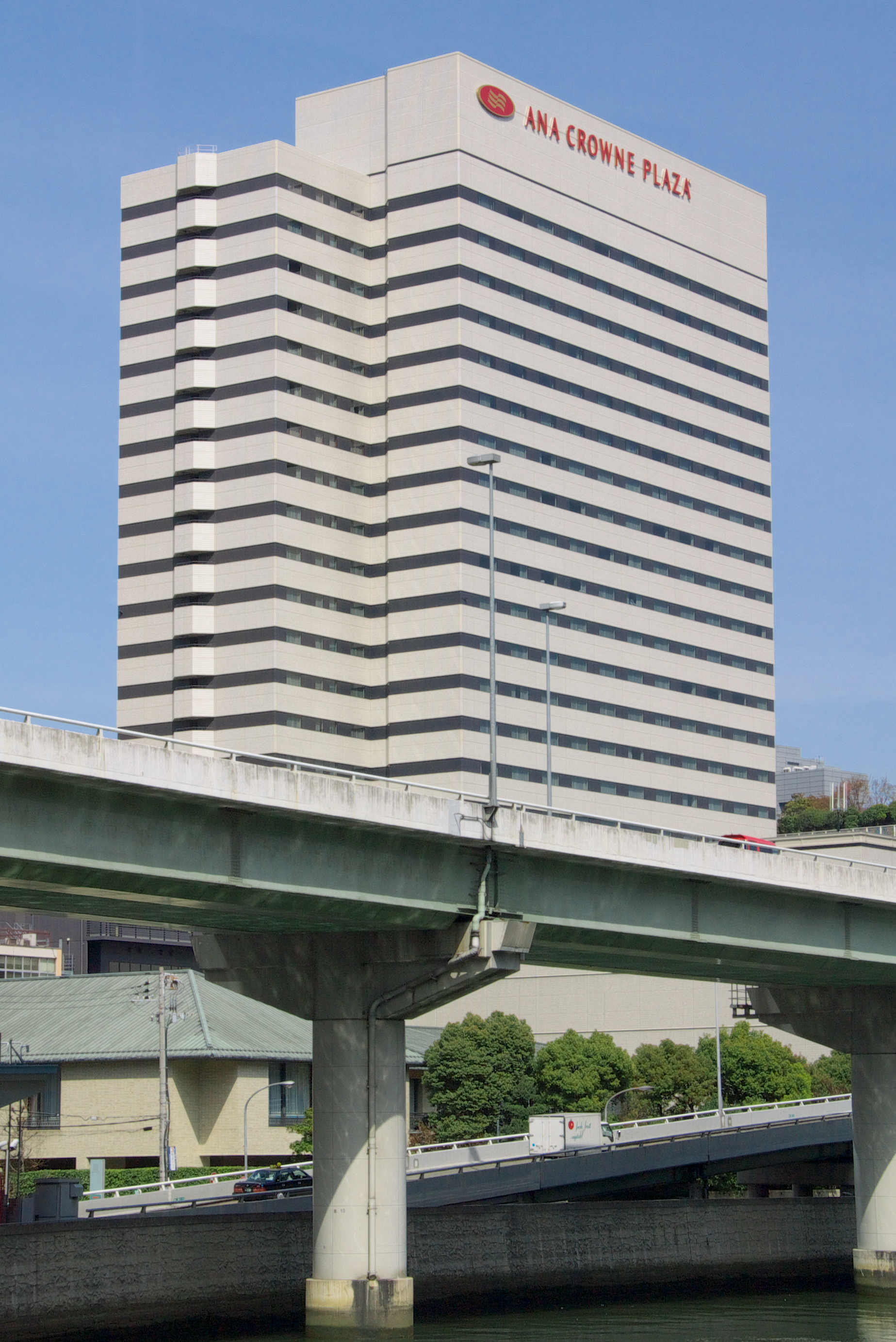 Photograph of ANA Crowne Plaza Osaka in Kita-ku, Osaka, Osaka Prefecture, Japan.